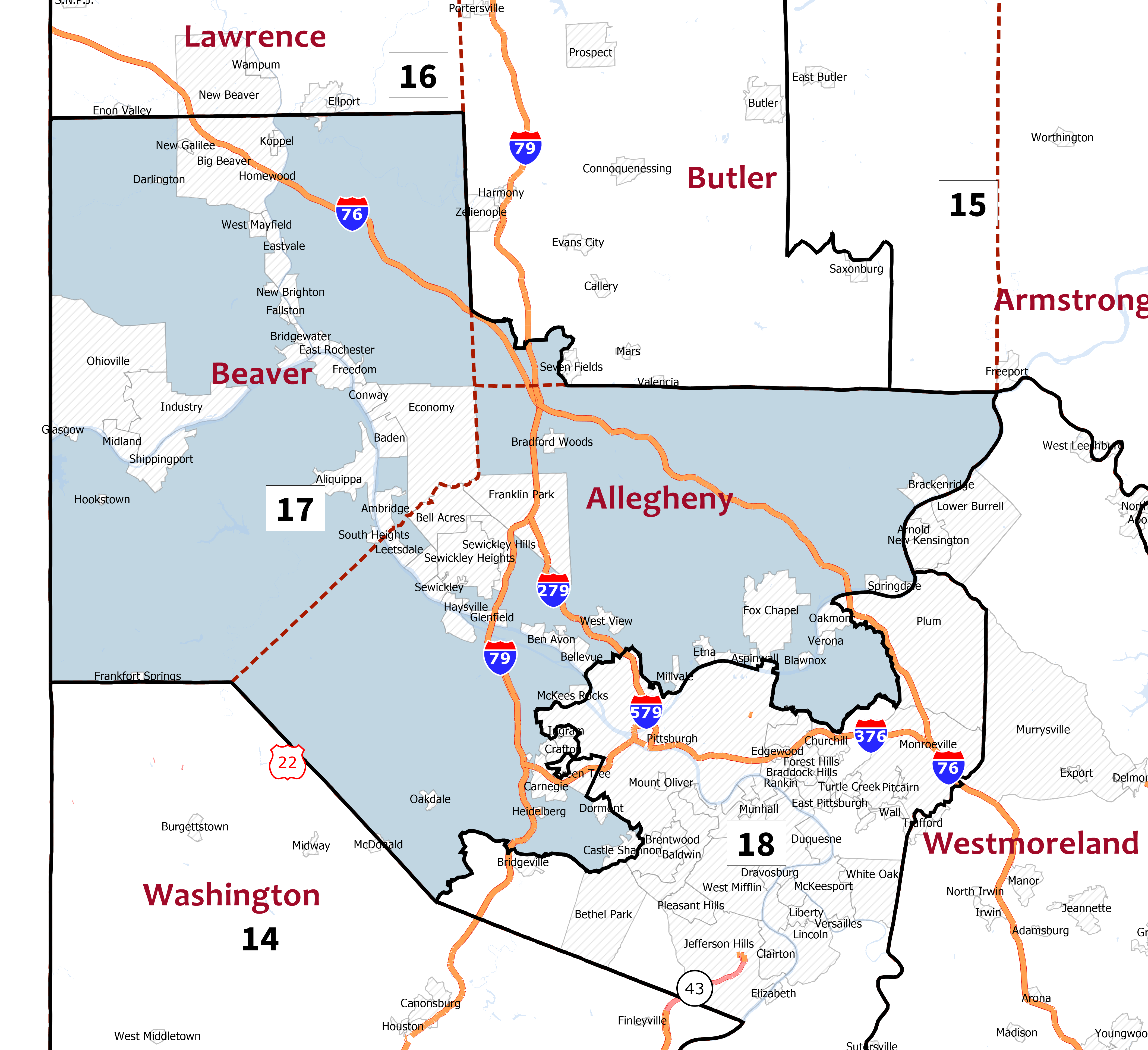 Pennsylvania congressional district 17